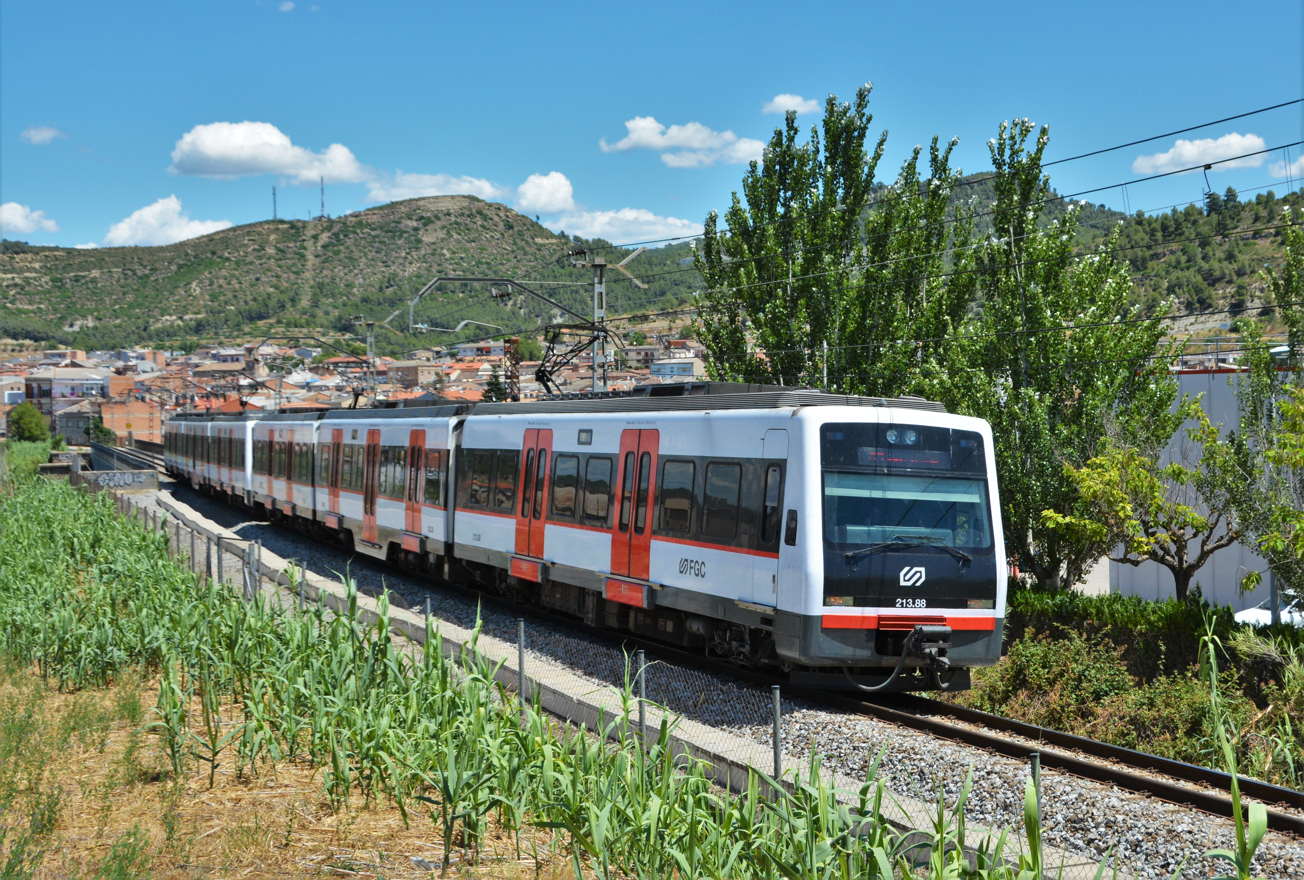 Two Class 213 EMUs of FGC leaving from Sant Vicenç de Castellet-Castellgalí, working the train N430 from Manresa Baixador to Barcelona Plaça Espanya.